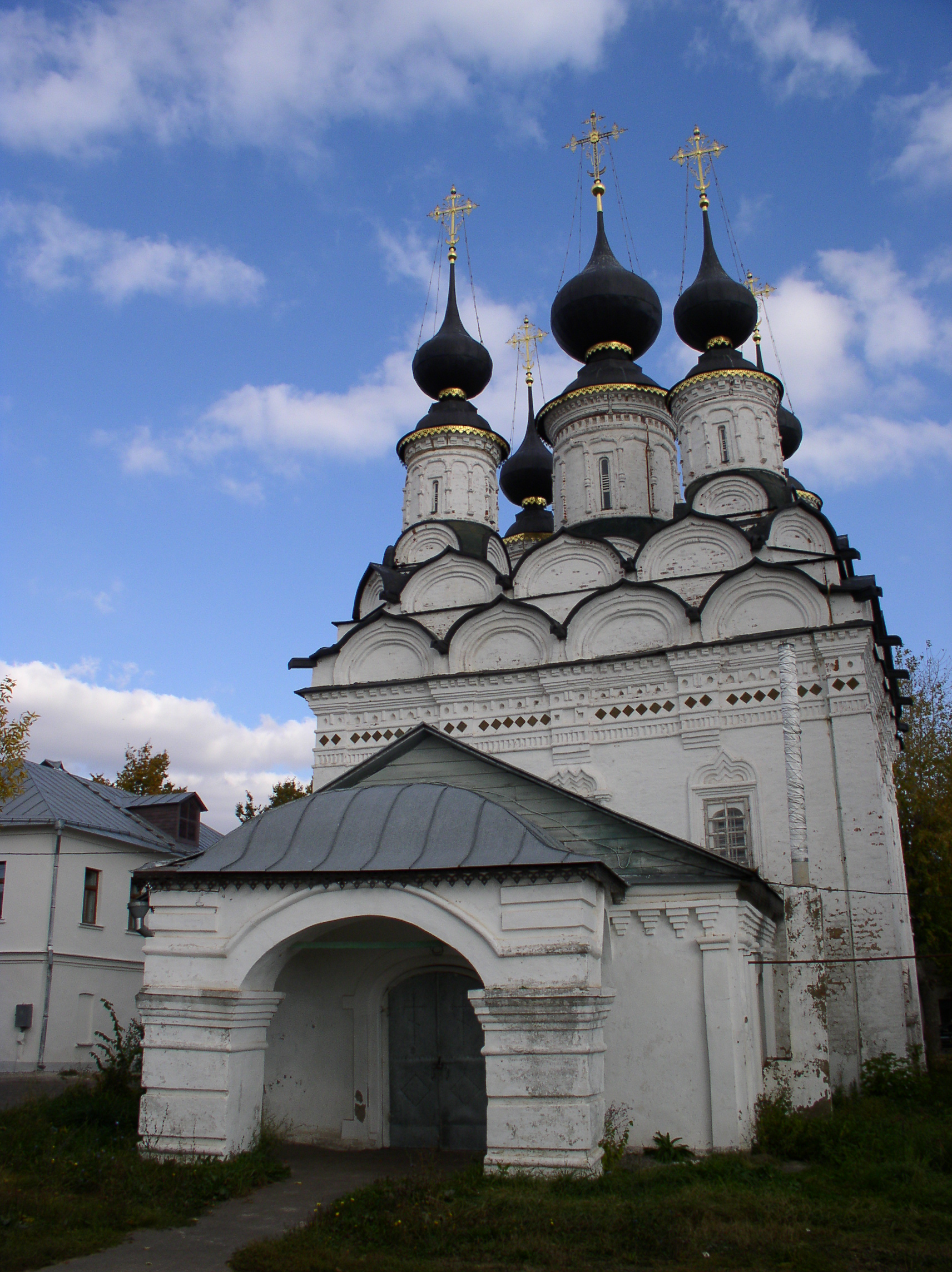 Saint Lazarus church. Suzdal, Russia.